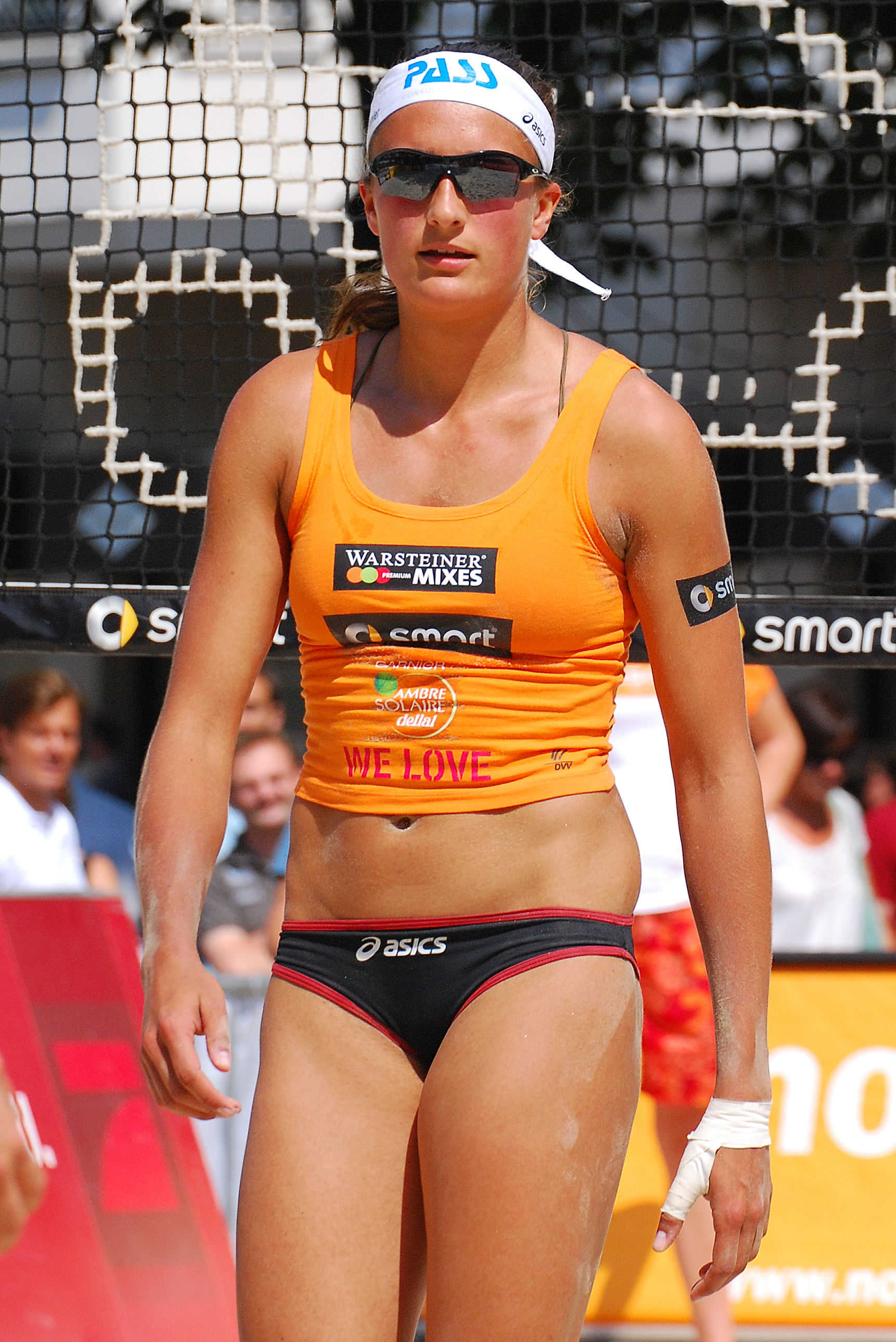 The German beach volleyball player Ilka Semmler during the Smart Beach Tour 2008 at Bonn.